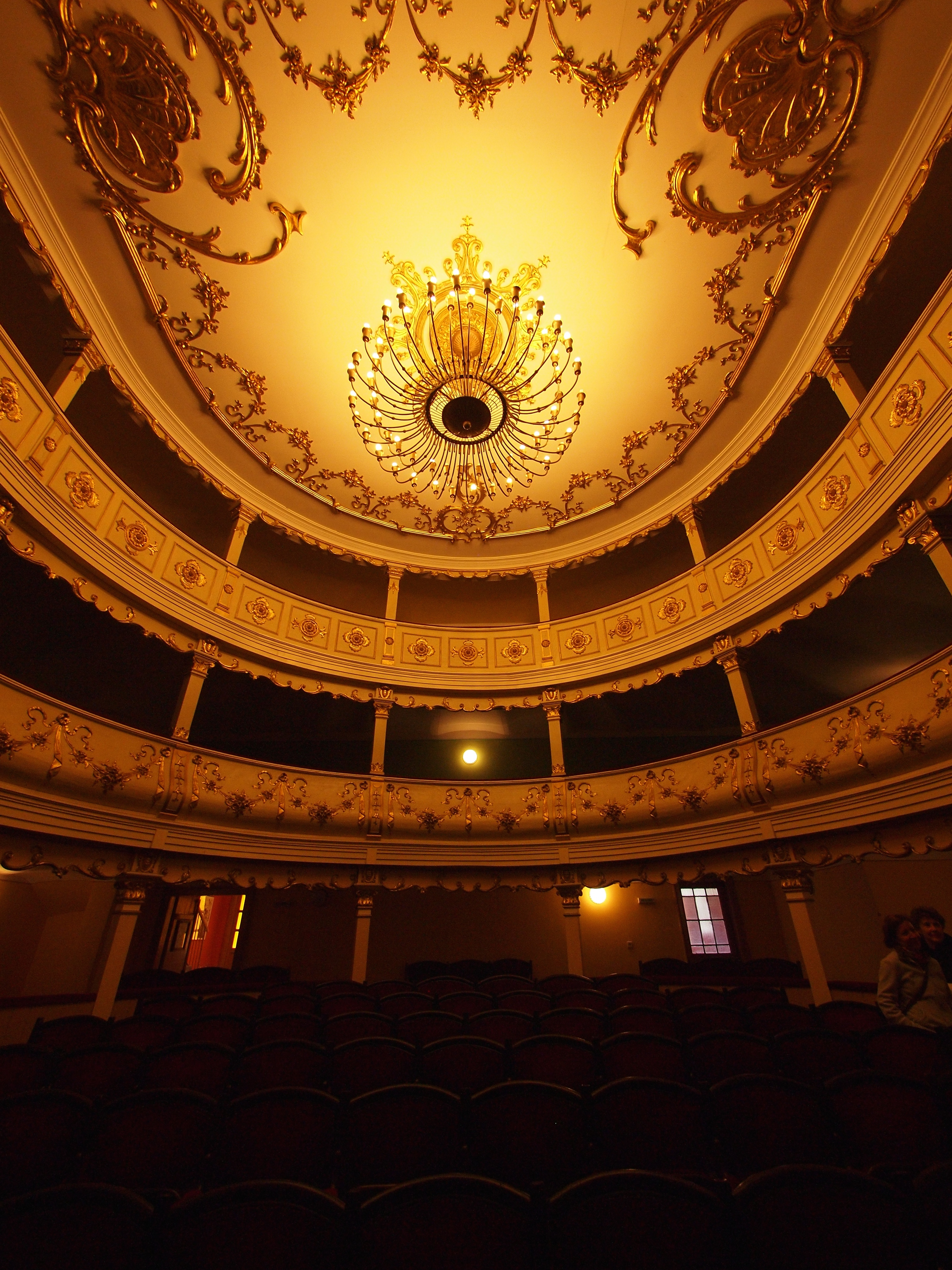 „Mihai Eminescu” Theatre in Oravița